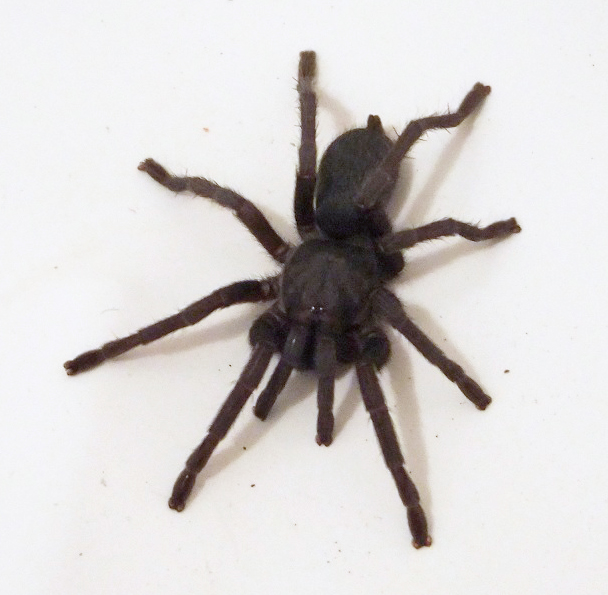 Chaetopelma olivaceum, Wildlife and Plants of Israel